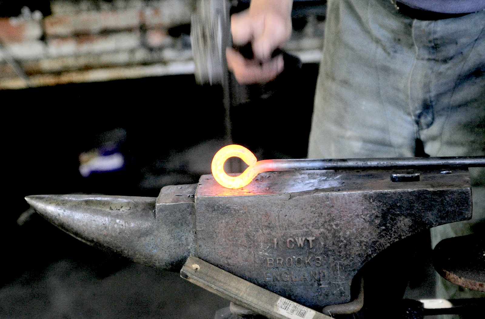 Blacksmith at work (tweaked to reduce contrast between the metal piece and the anvil)